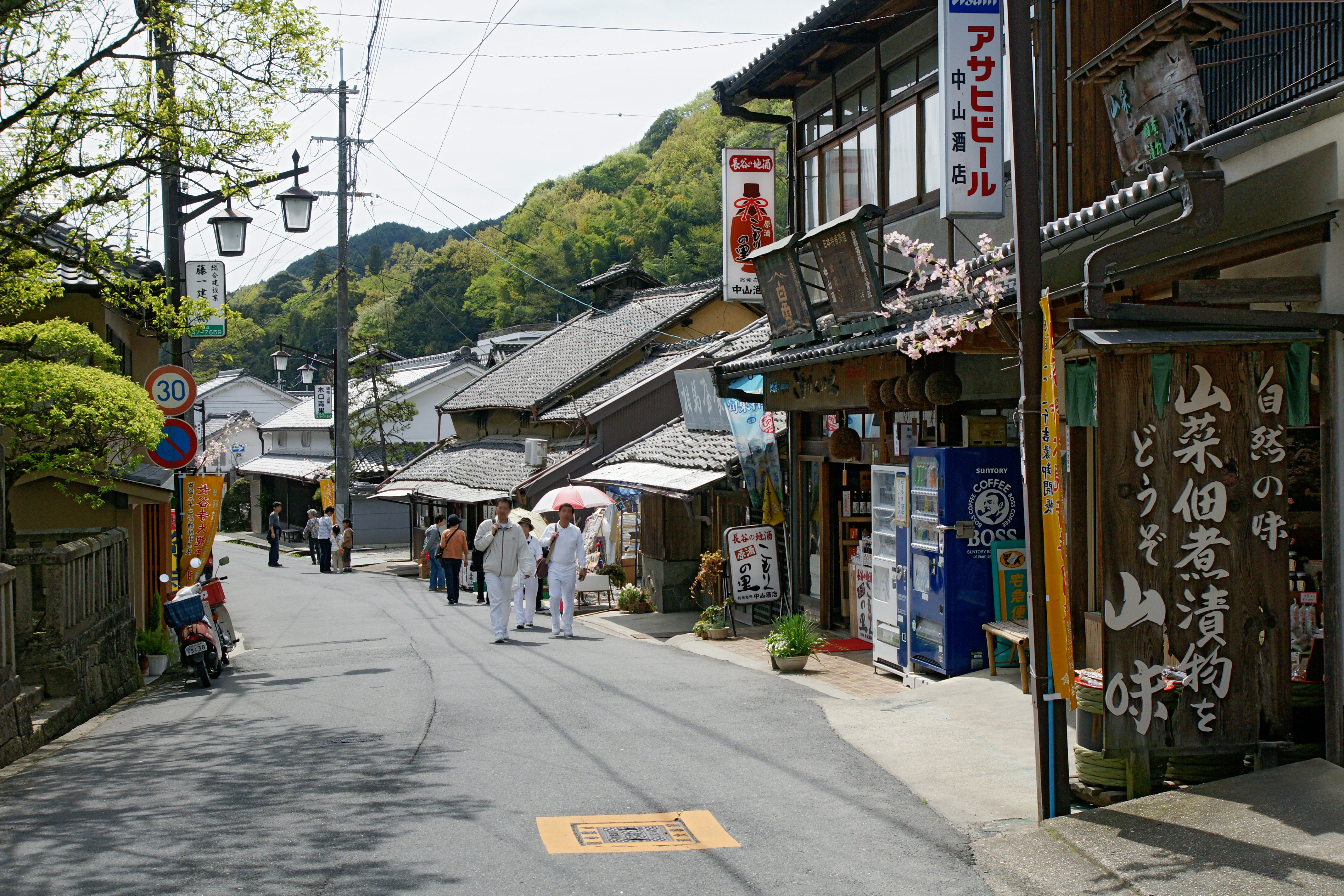 at the temple town of Hase-dera in Sakurai, Nara prefecture, Japan